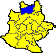 Card of Stuttgart, Germany - district Zuffenhausen